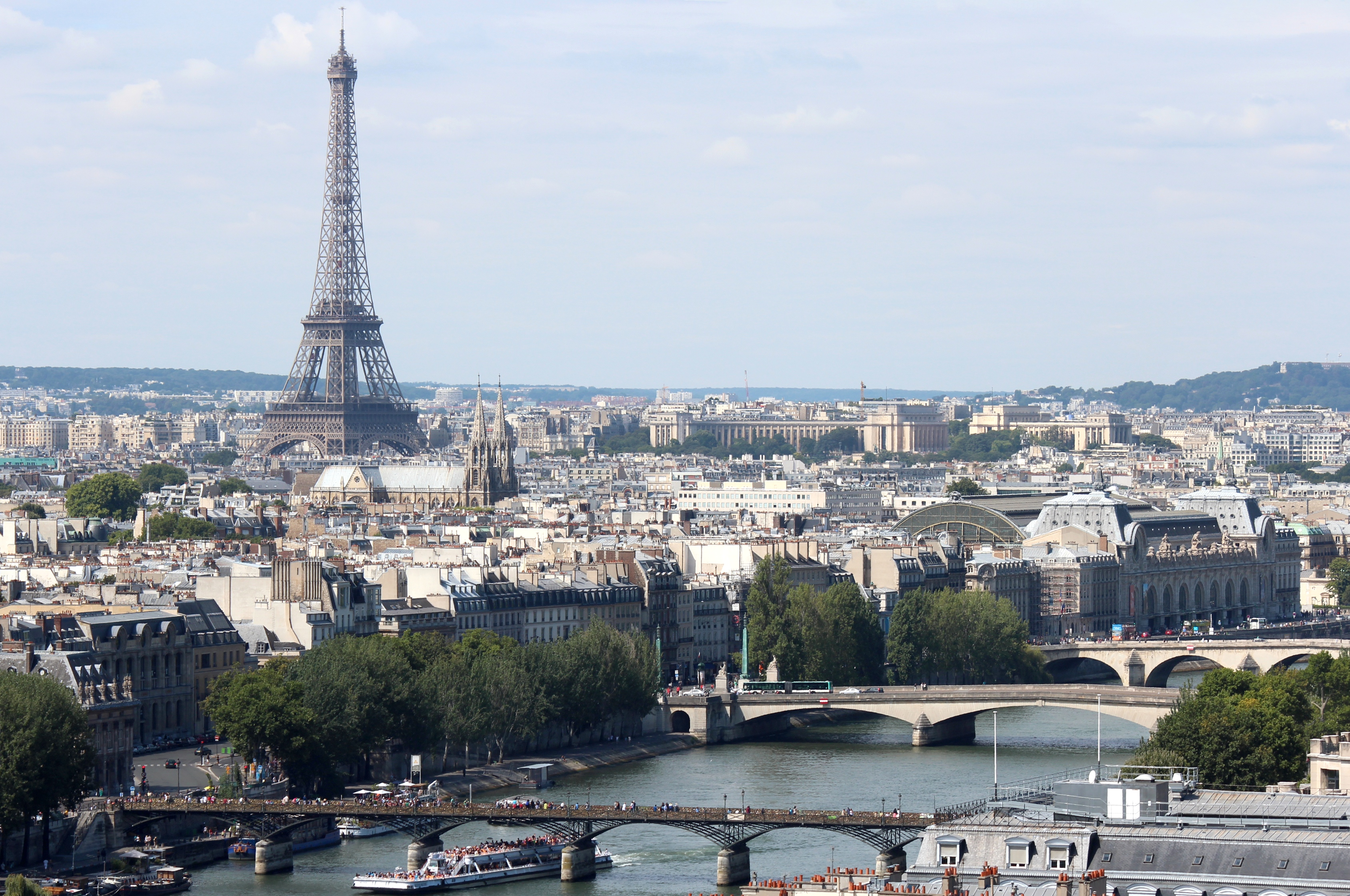 Seine river and Eiffel Tower, seen from Tour Saint Jacques.